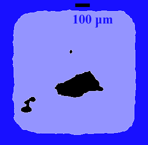 particle in situ image ecoscope (Photo by Uwe Kils GFDL